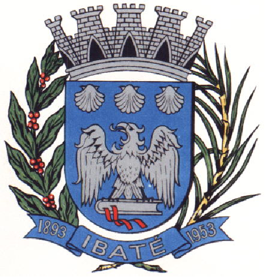 Coat of Arms of the city of Ibaté, São Paulo state, Brazil. Based on the municipal website. Emerson